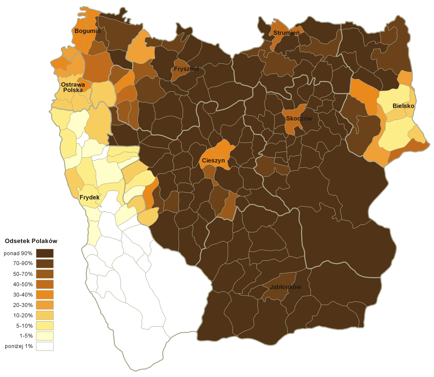 Polish-speaking population in the Duchy of Teschen in 1910. Population and communes & counties boundaries according to the map F. Popiołek, T. Golachowski Rozsiedlenie ludności polskiej w Księstwie Cieszyńskim 1910, Rada Narodowa Księstwa Cieszyńskiego